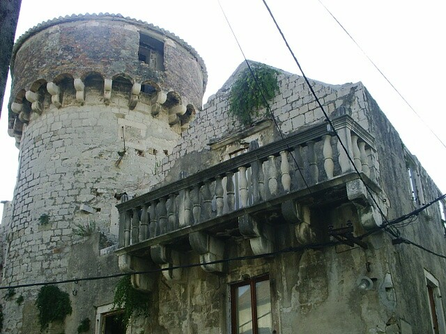 16th century tower in Kaštel Kambelovac, Croatia